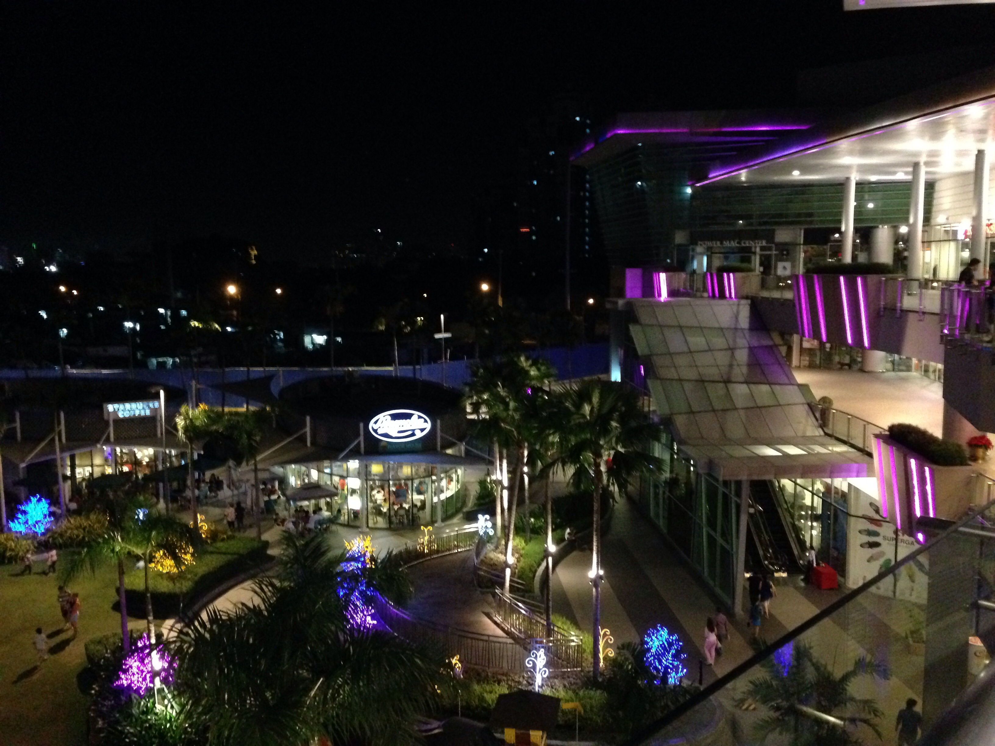 Robinsons Magnolia al fresco area, New Manila, Quezon City, Philippines